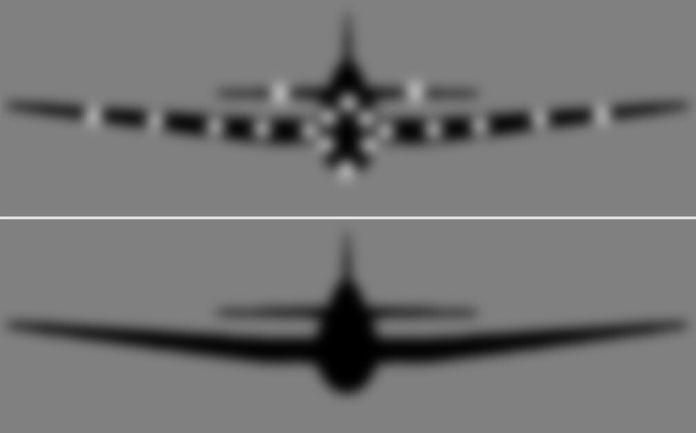 Principle of Yehudi lights counter-illumination camouflage. Silhouettes of oncoming Grumman Avenger against sky with and without lamps. The lamps were automatically adjusted to match the brightness of the sky, reducing the visibility of the plane as seen from a potential target (ship or surfaced submarine) by up to 70%.